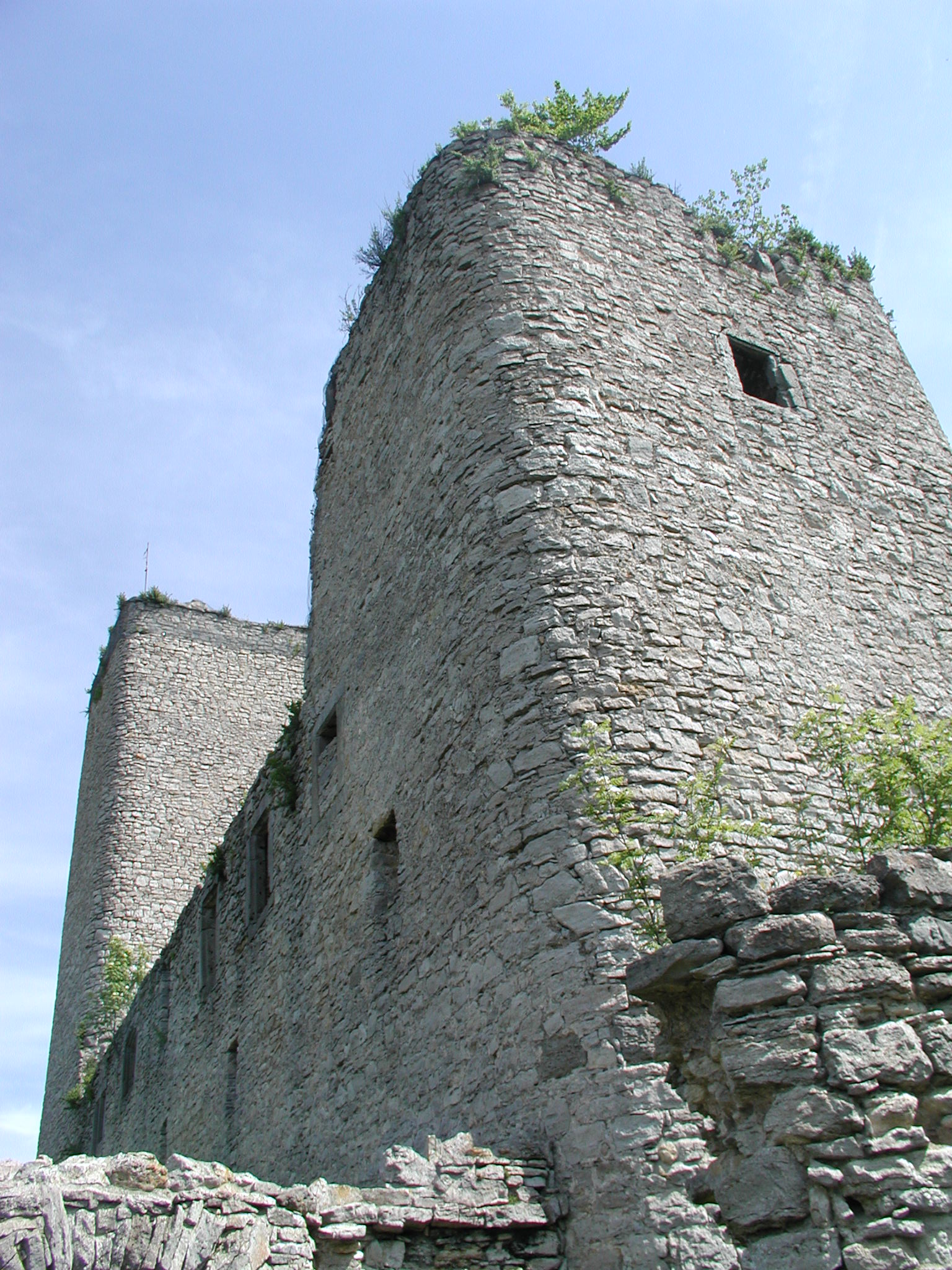 Burgruine Ehrenstein (Ehrenstein Castle) in Thuringia, Germany.